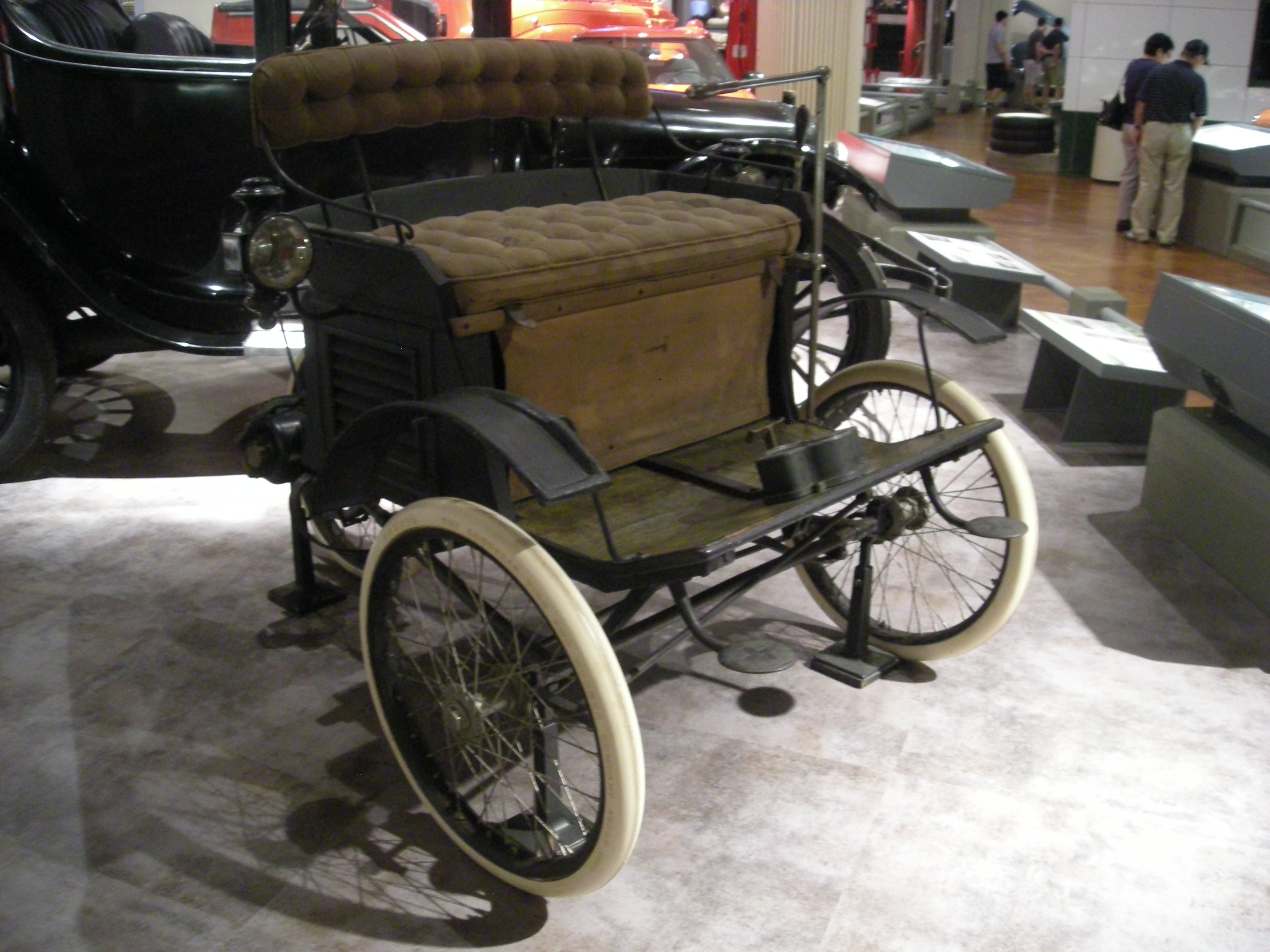 An 1896 Riker electric tricycle on display at the Henry Ford Museum in Dearborn, Michigan (United States).